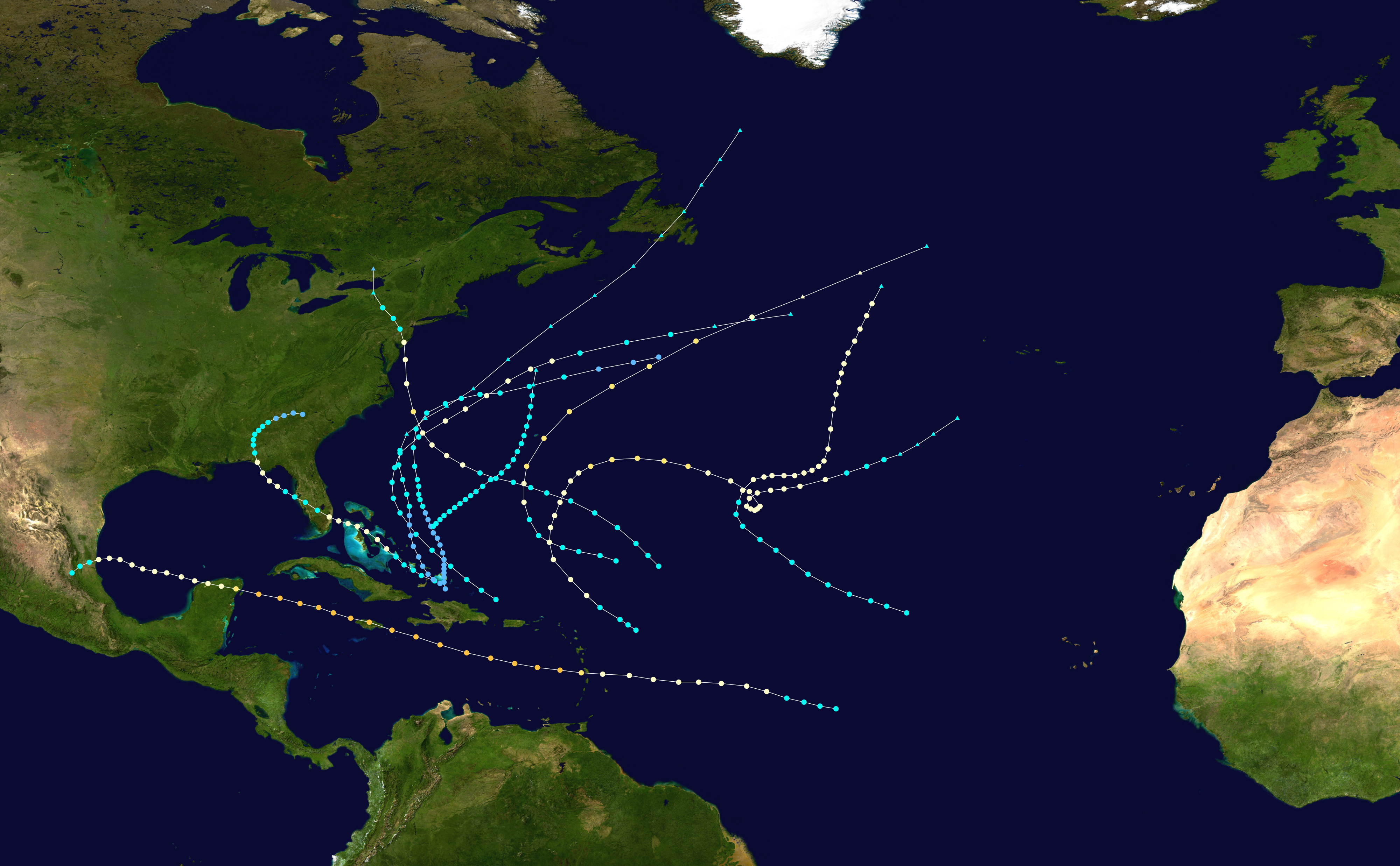 This map shows the tracks of all tropical cyclones in the 1903 Atlantic hurricane season. The points show the location of each storm at 6-hour intervals. The colour represents the storm's maximum sustained wind speeds as classified in the Saffir-Simpson Hurricane Scale (see below), and the shape of the data points represent the type of the storm. Saffir–Simpson scale Tropical depression≤38 mph≤62 km/h Category 3111–129 mph178–208 km/h Tropical storm39–73 mph63–118 km/h Category 4130–156 mph209–251 km/h Category 174–95 mph119–153 km/h Category 5≥157 mph≥252 km/h Category 296–110 mph154–177 km/h Unknown Storm type Tropical cyclone Subtropical cyclone Extratropical cyclone / Remnant low / Tropical disturbance / Monsoon depression